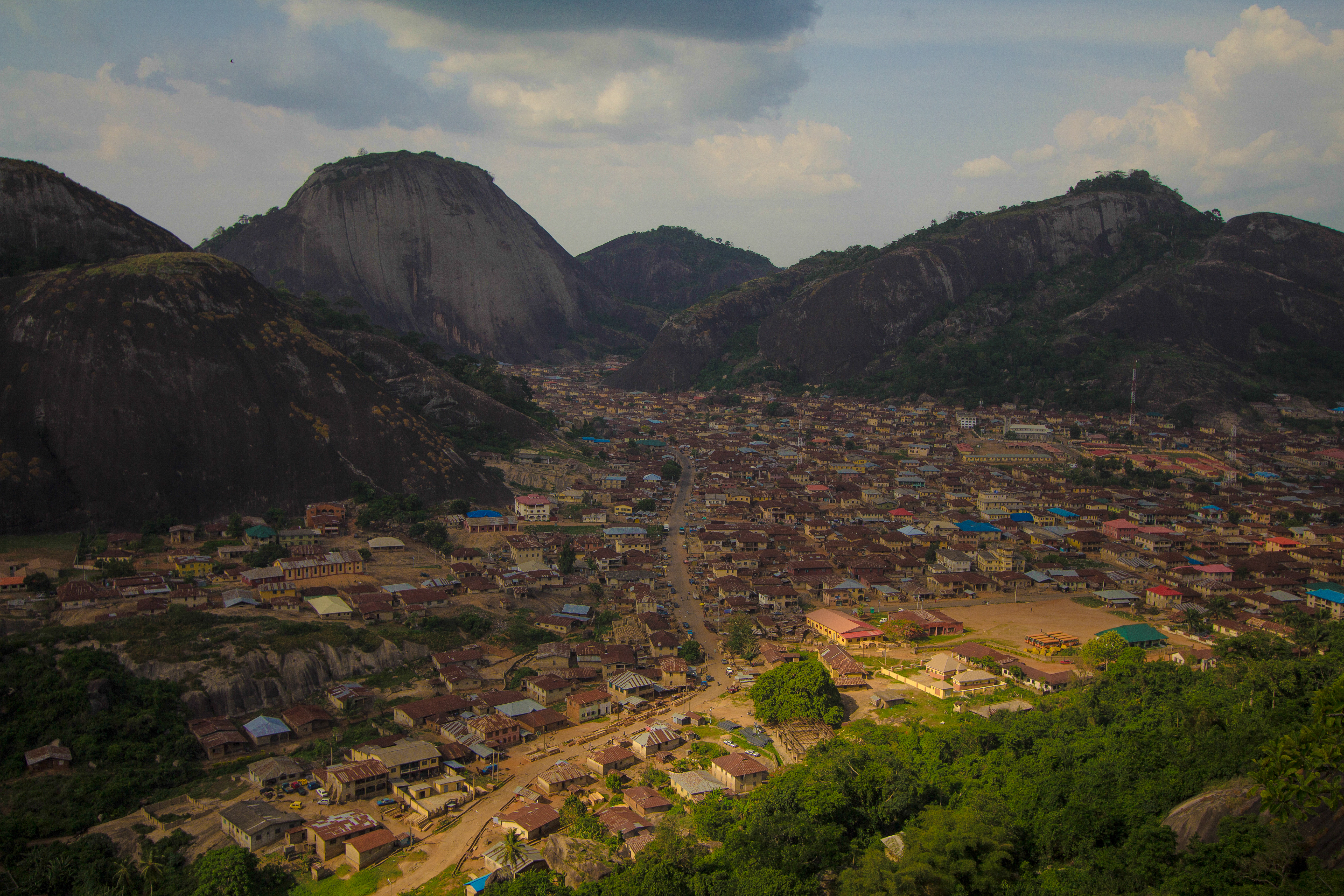 Idanre Hills | Ondo State, Nigeria